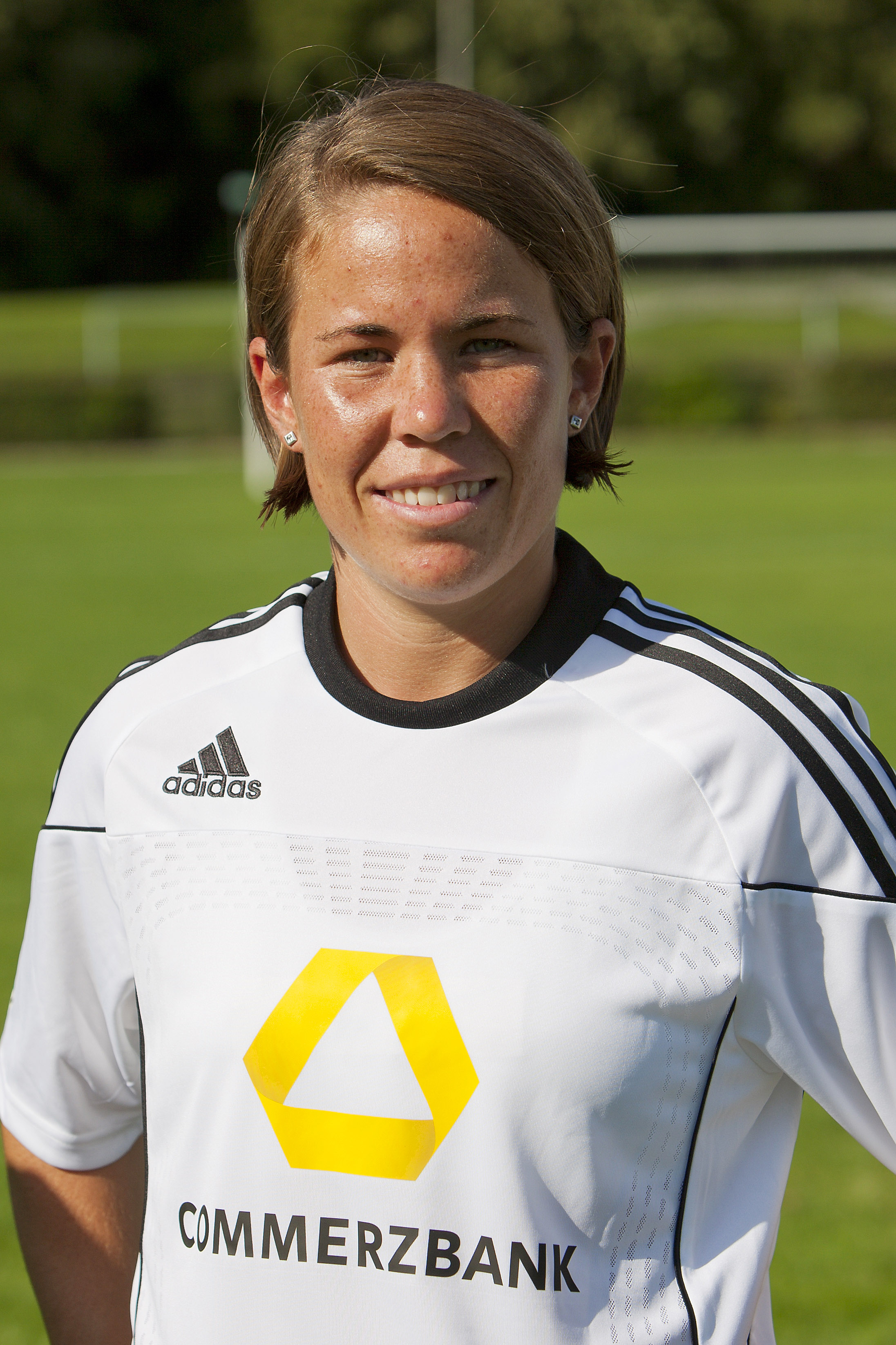 Meike Weber, August 2011